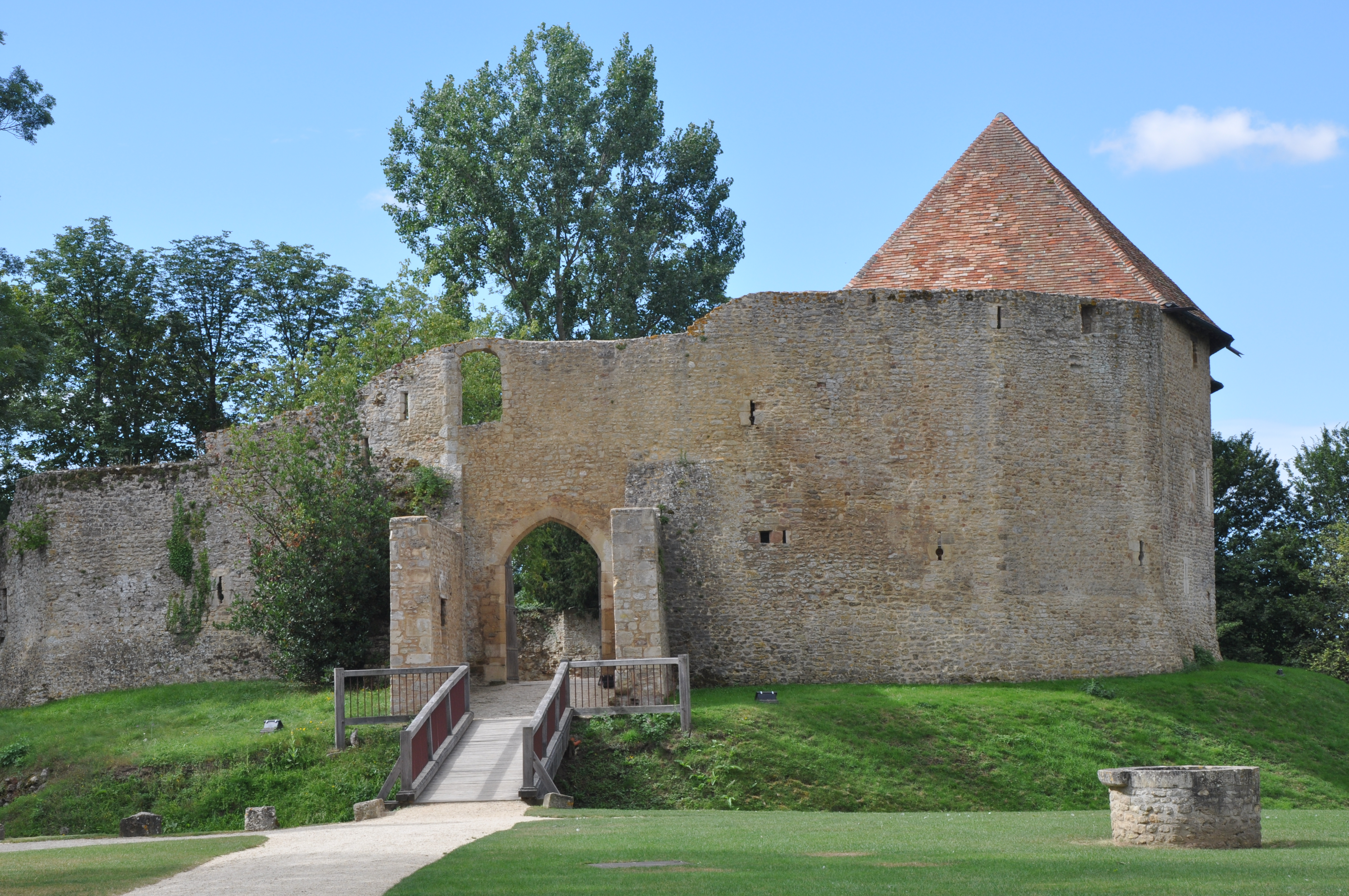 Castle of Crèvecoeur-en-Auge (France, Normandy)